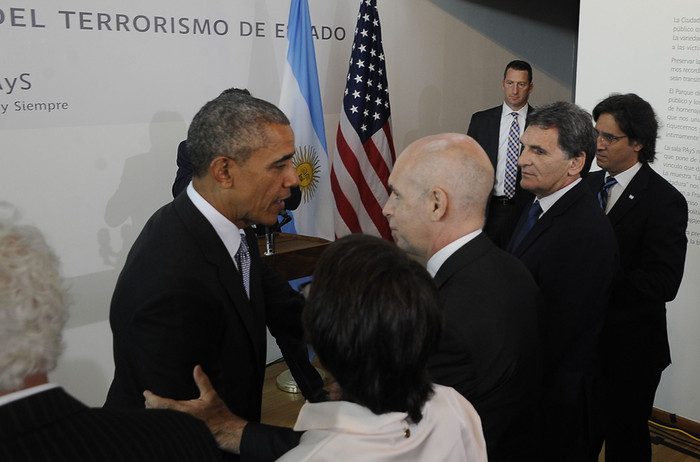 The President of the United States Barack Obama with the Mayor of the city of Buenos Aires Horacio Rodríguez Larreta